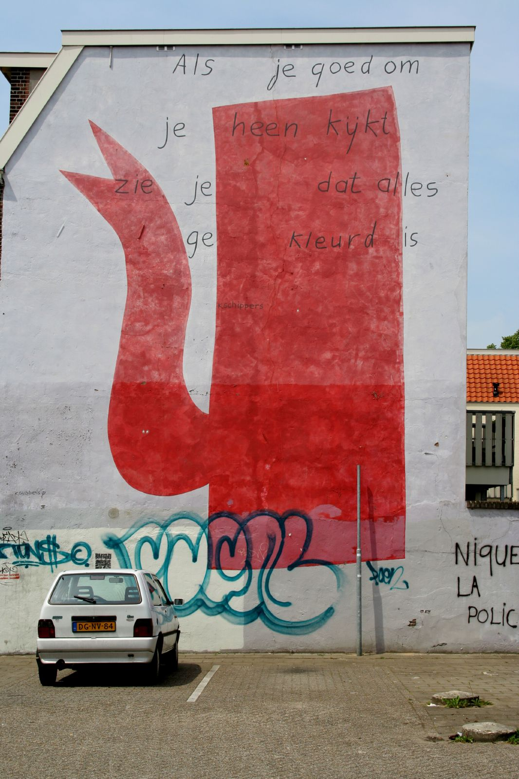 Coffee pot painting on a public wall in Nijmegen, the Netherlands by Klaas Glubbels. Poem is by K. Schippers.